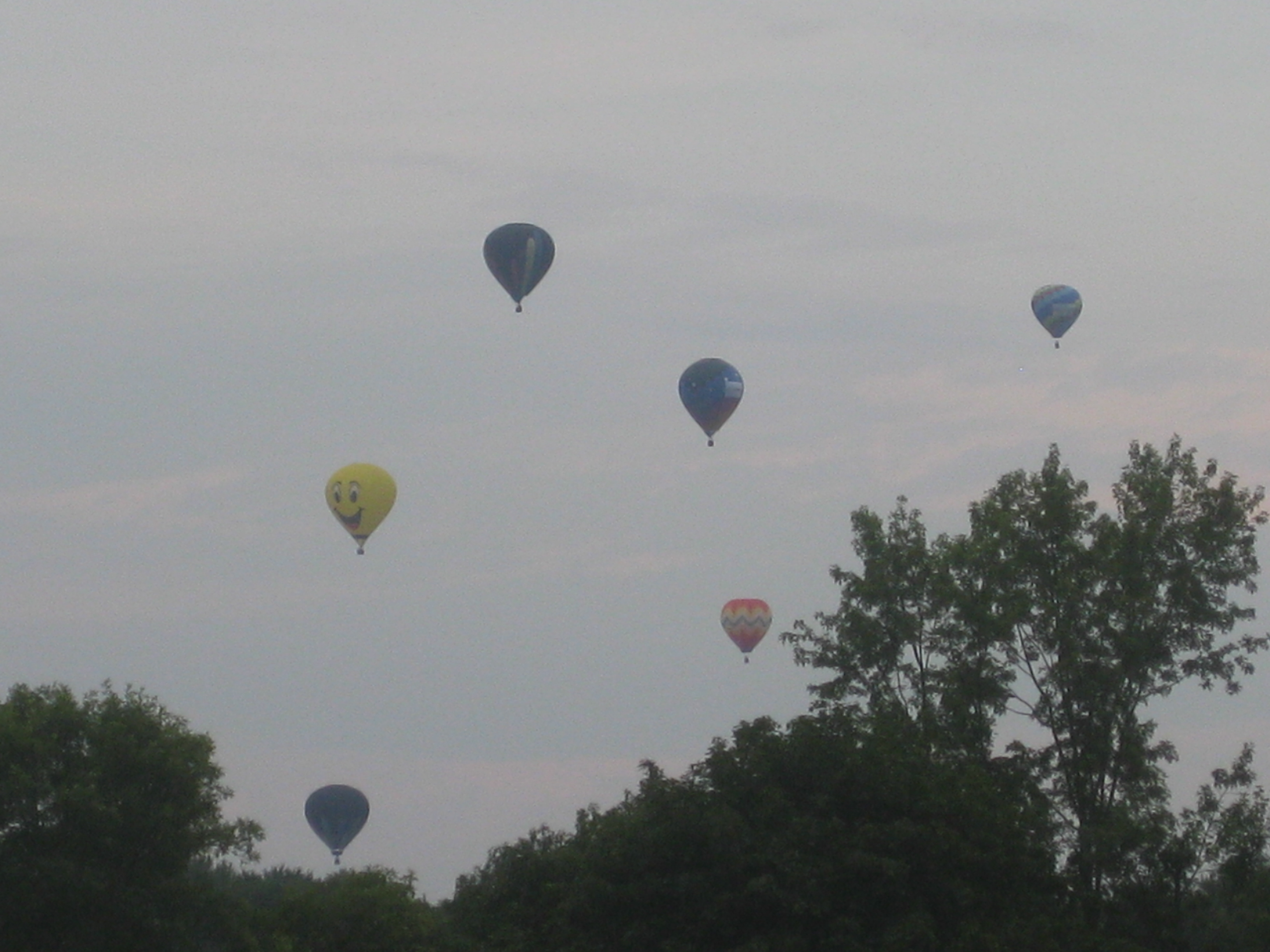 Quick Chek New Jersey Festival of Ballooning in 2009